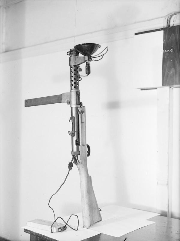 Fighting in the Dark. 2 January 1943, Liverpool, the Navy's Lanchester Gun Fitted With Illumination Attachment For Night Operation. The Lanchester gun with illumination attachment.